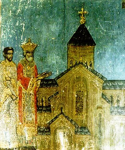 King Mirian at the Cathedral of Mtskheta. A mural from the same cathedral.